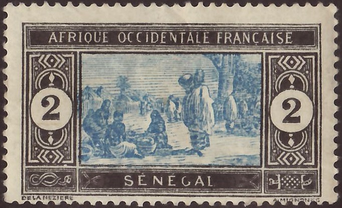 Stamp of Sénégal as part of French West Africa ("Afrique occidentale française" = A.O.F.); 1914; definitive issue of the series "market sceneries"; mint Stamp: Michel: No. 54 (Senegal); Yvert et Tellier: No. 54 (Sénégal): Scott: No. 80 (Senegal) Color: blue / black Watermark: none Nominal value: 2 (Centimes) Postage validity: from March 1914 until 1960 date QS:P,+1950-00-00T00:00:00Z/7,P580,+1914-03-00T00:00:00Z/10,P582,+1960-00-00T00:00:00Z/9